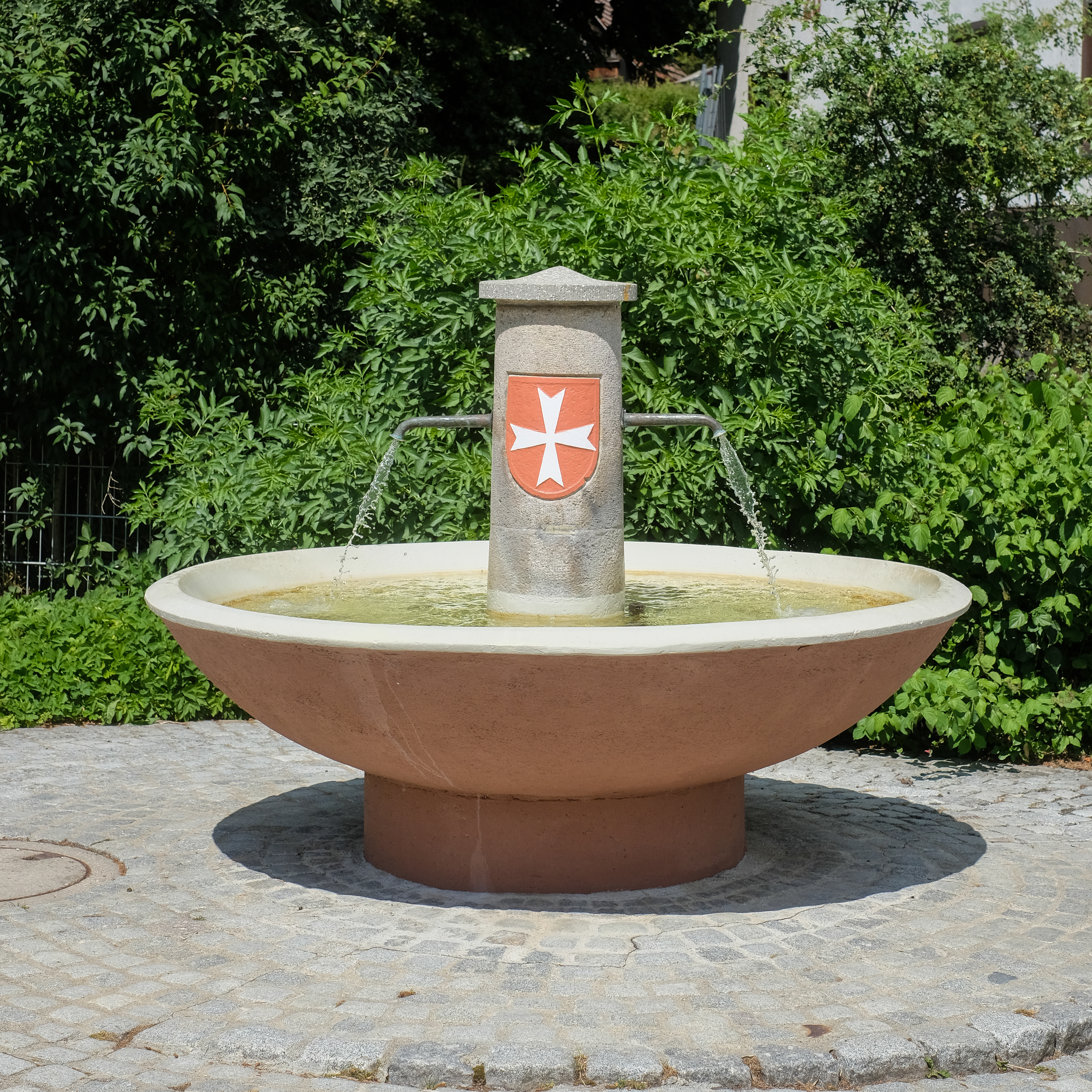 Fountain, VS-Weigheim, district Schwarzwald-Baar-Kreis, Baden-Württemberg, Germany